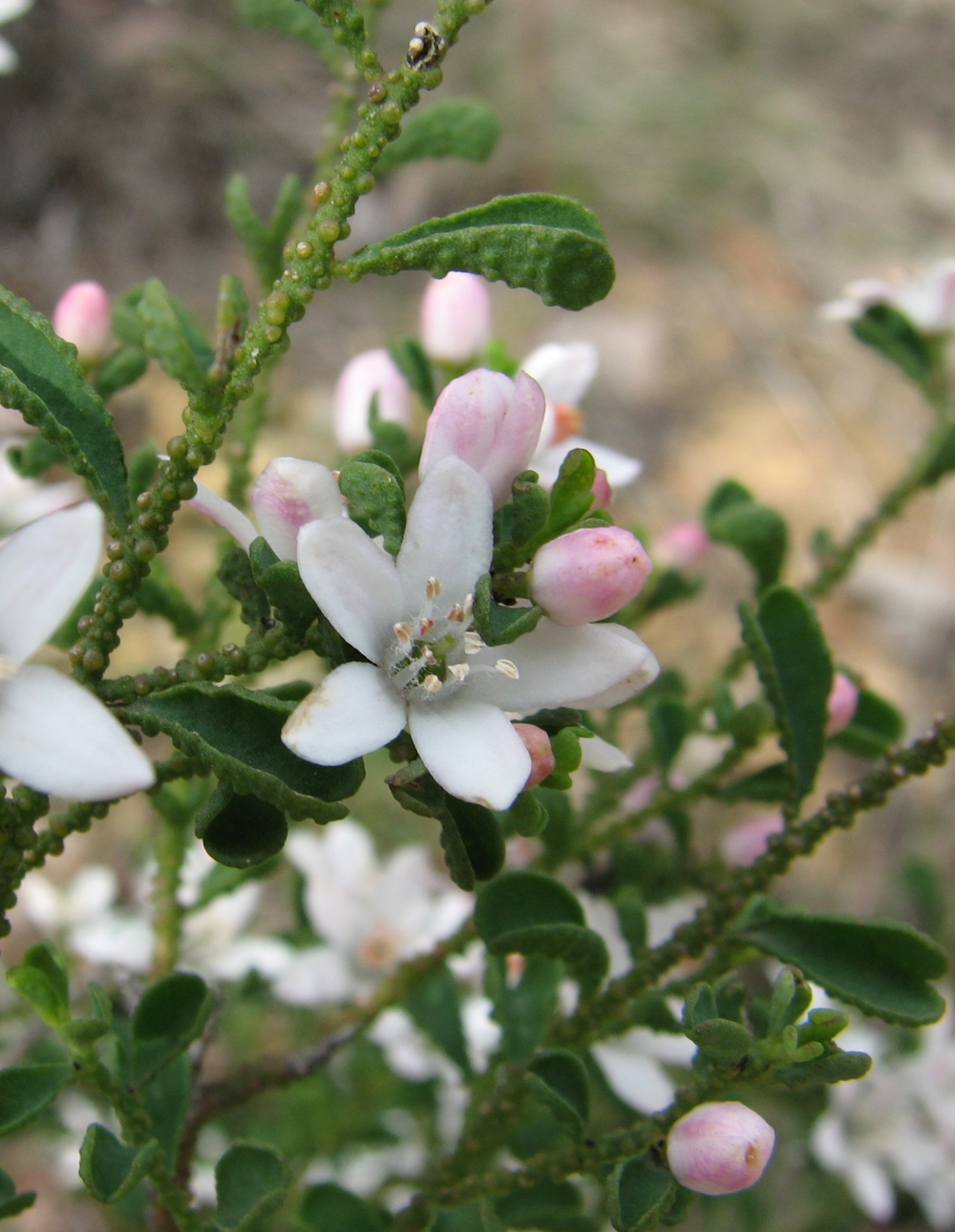 Philotheca verrucosa Fryers Ranges, Victoria, Australia